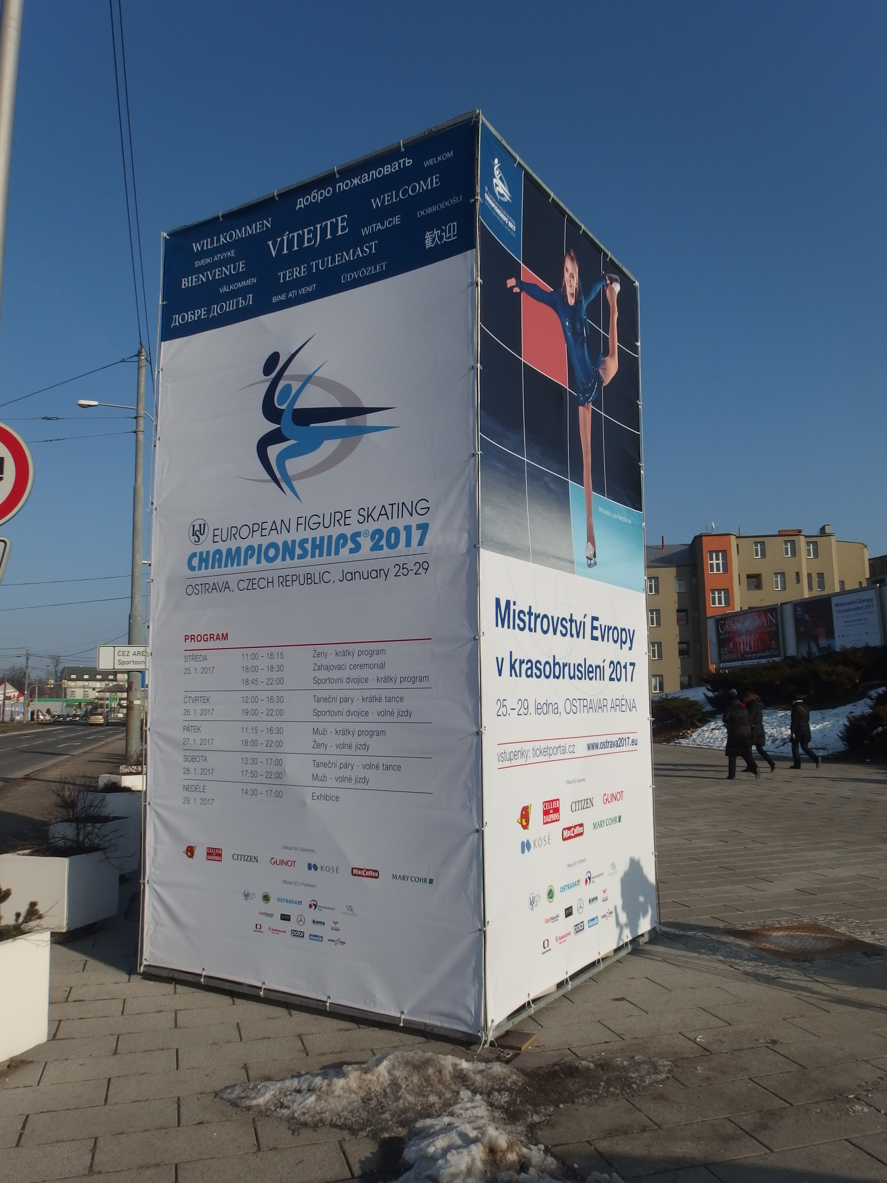 Ostrava, Czech Republic. European Figure Skating Championships 2017.